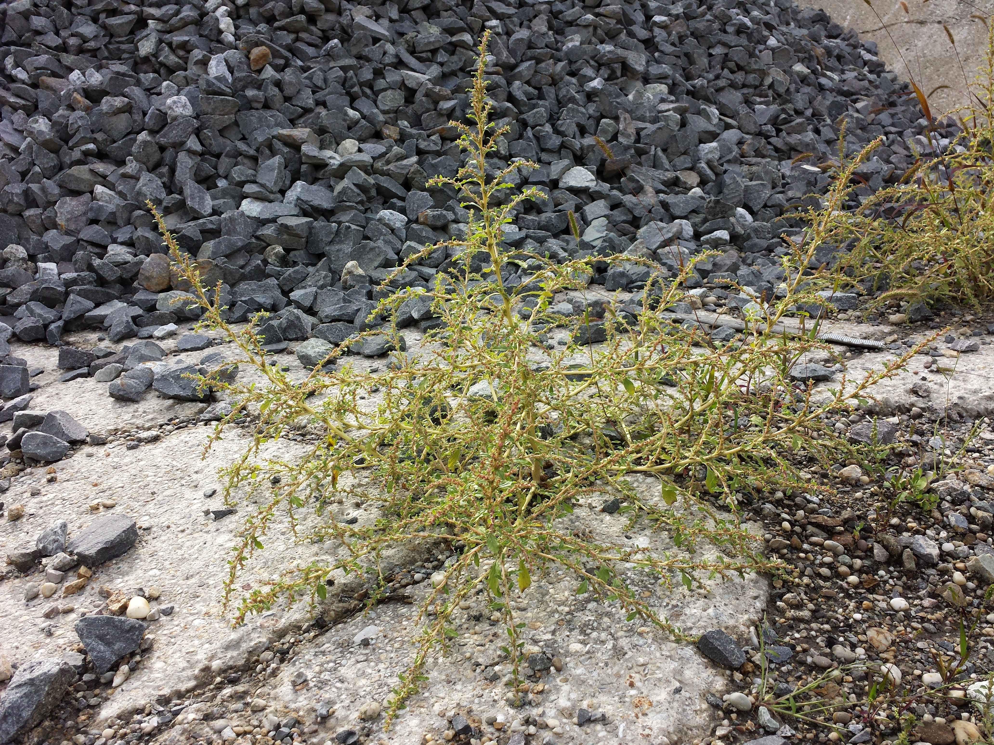 Habitus Taxon: Amaranthus albus (sensu Fischer et al. EfÖLS 2008 ISBN 978-3-85474-187-9) Location: Floridsdorf rail station, Vienna-Floridsdorf - ca. 160 m a.s.l. Habitat: ruderal area (abandoned coal bunker)